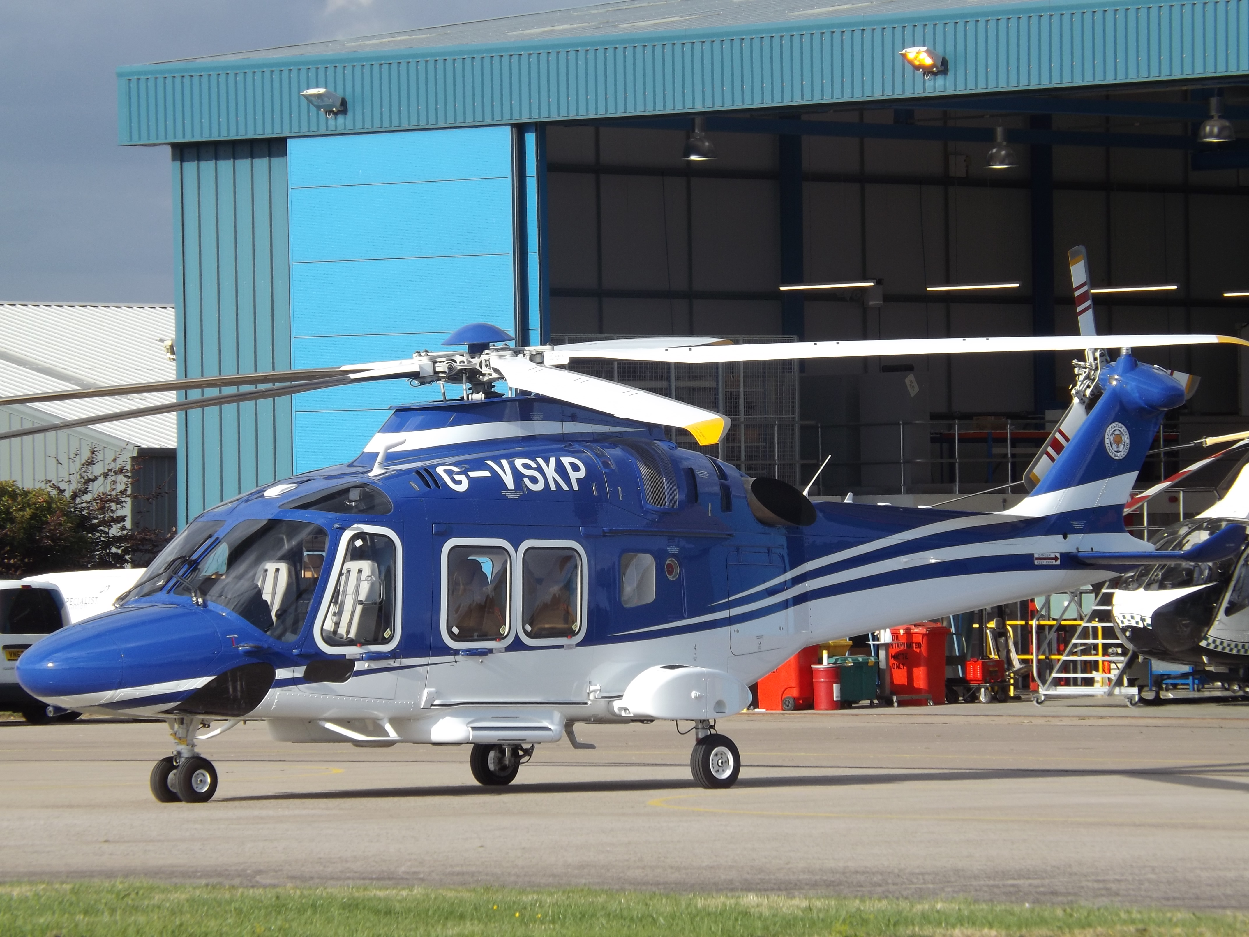 At Gloucestershire Airport.